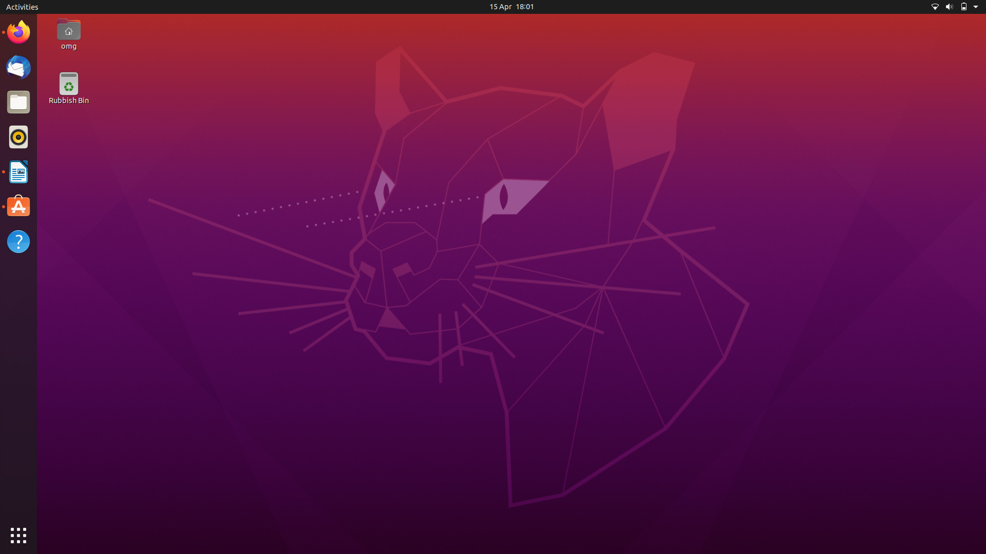 Ubuntu 20.04 LTS (Focal Fossa) main desktop